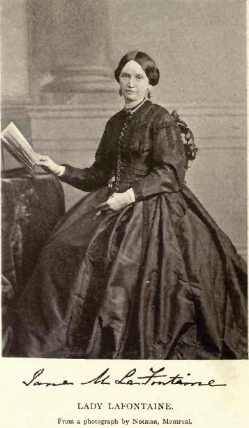 Lady Jane Lafontaine by William Notman